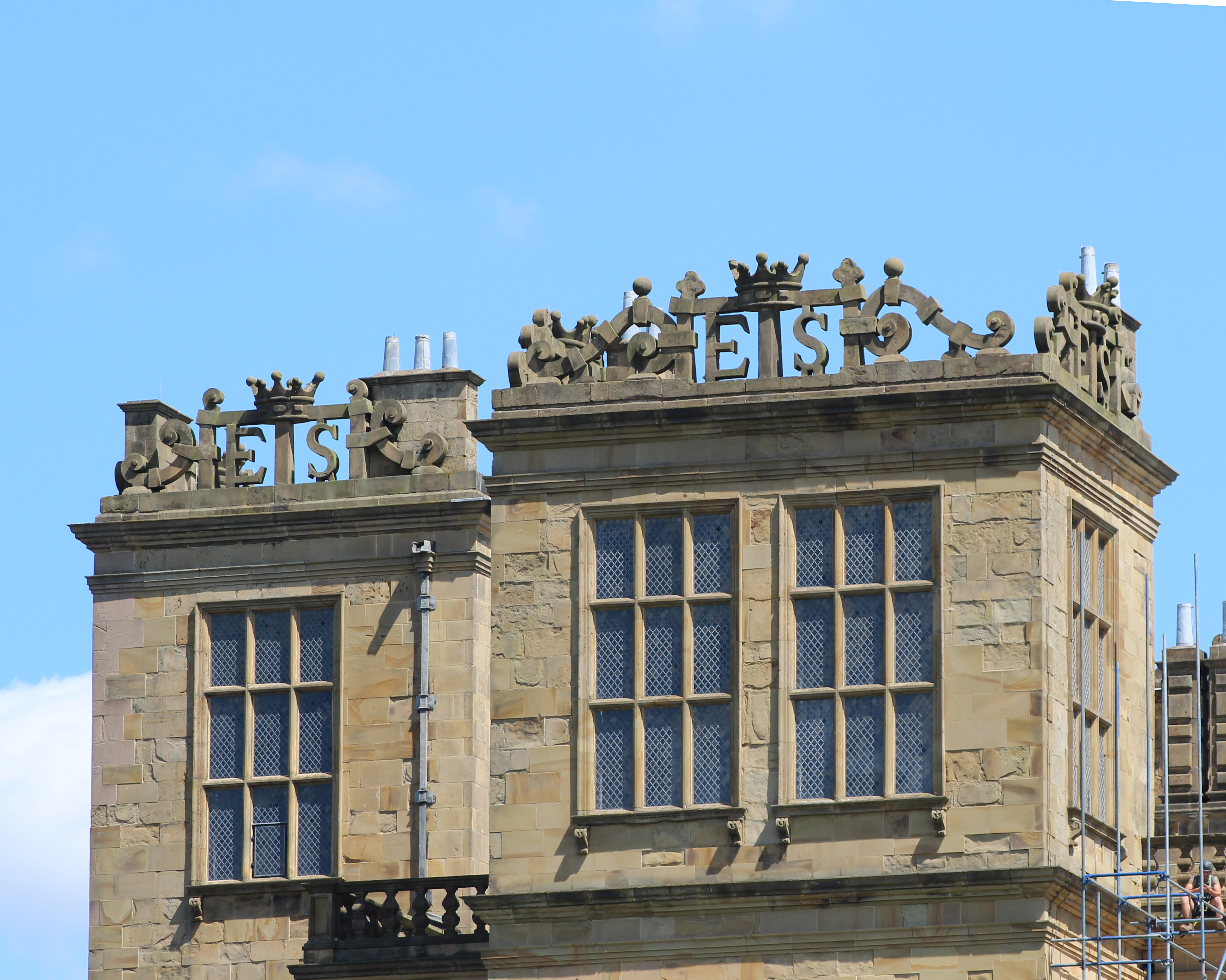 Monogram of Elizabeth Talbot, Countess of Shrewsbury (Bess of Hardwick), on the towers of Hardwick Hall. Harwick Hall, which had six such towers, was a classic example of an Elizabethan Prodigy house (a house where wealth was flaunted to impress the monarch).